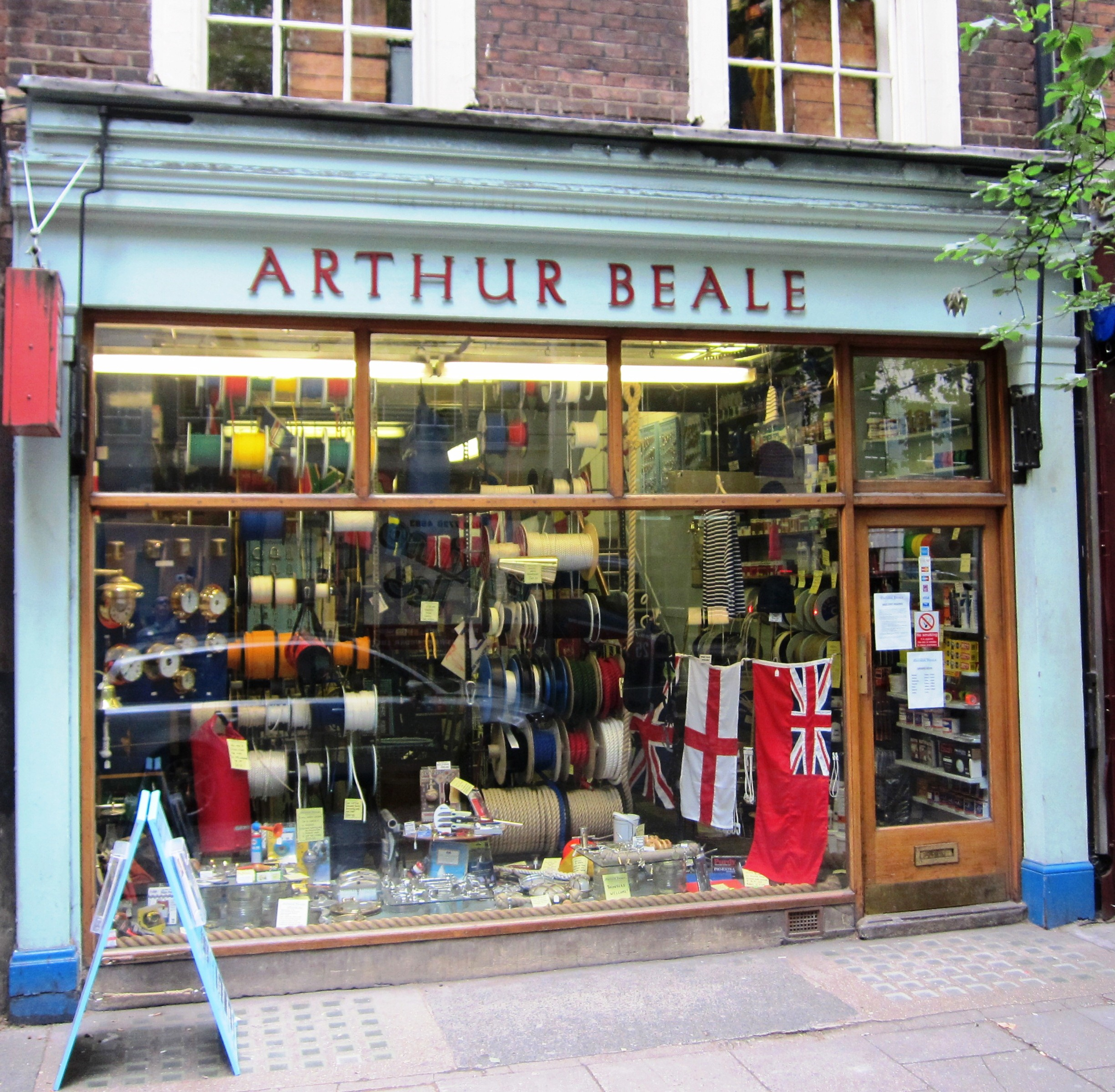 Arthur Beale.